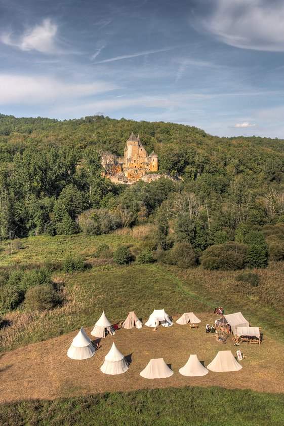 This picture shows a camp of The Company of Saynt George in Commarque, France in 2006. The picture has been taken by Alexander Graff. He agreed to release the photo under the Creative Commons license. The message with this statement has been forwarded to permissions-en AT wikimedia DOT org.